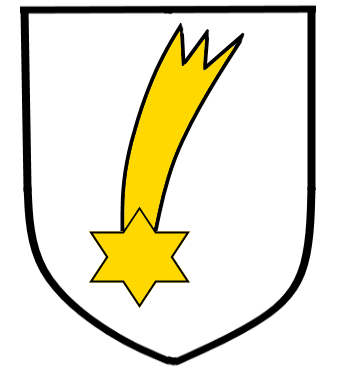 4 Fallschirmjäger Division. German Army, World War II